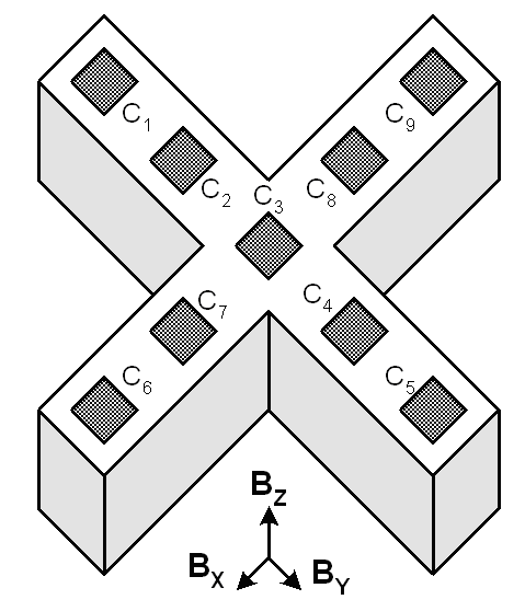 Splitted Hall structures on vertical Hall sensors for measurement of orthogonal magnetic field’s projections